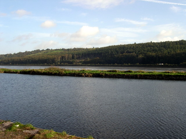 Newry River and Shipping Canal Area shown is within Carlingford Lough Area of Special Scientific Interest.